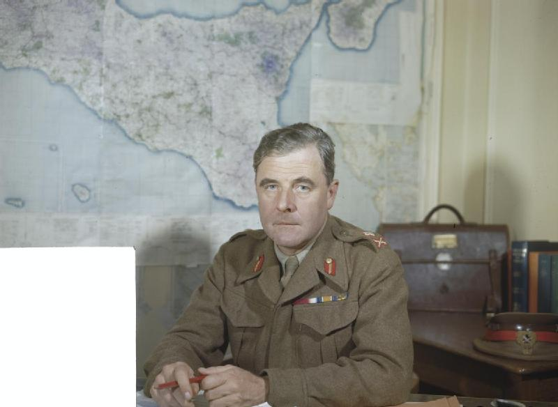 The Allied Military Government in Sicily, 1943 Major General Lord Rennell of Rodd CB, Chief of Civil Affairs, Staff Officer of the Allied Military Government in Sicily, at his desk in front of a map of Sicily.